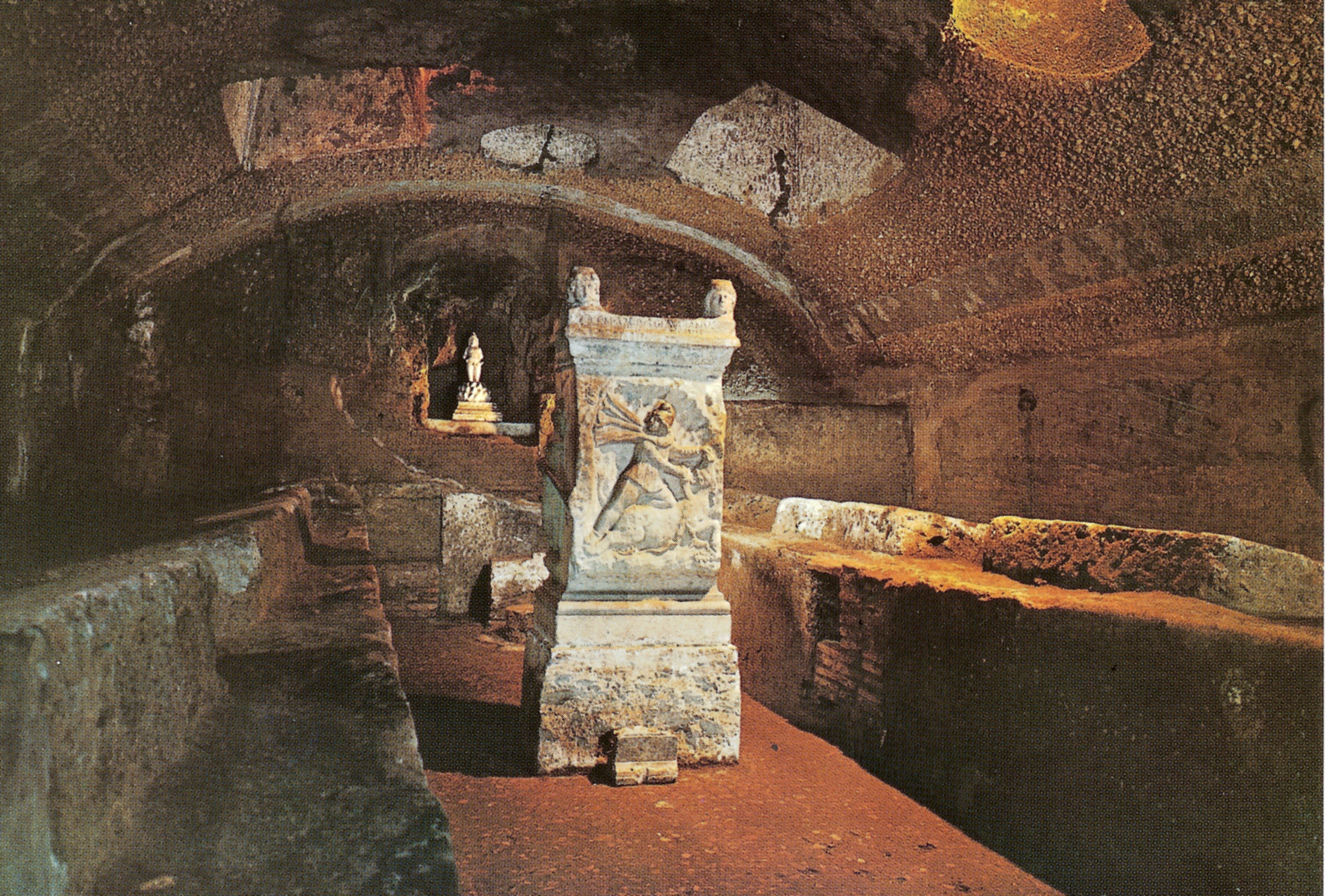 Mithraeum under the basilica of Saint Clement in Rome